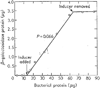 Produksi protein B-galatosidase yang berbanding dengan protein bakteri secara keseluruhan, terlihat bahwa produksi akan meningkat ketika B-gal terdapat pada media, sementara ketika dihilangkan, B-gal tidak akan diproduksi